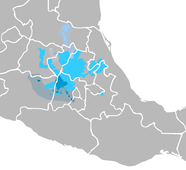 Area of presence of otopamean languages (Otomi, Pame, Mazahua, Matlatzinca-Atzinca, Chicimeca-Jonaz) at the begining of 20th century. Indigenuous languages were specially present in small villages, Spanish was predominant in big cities.